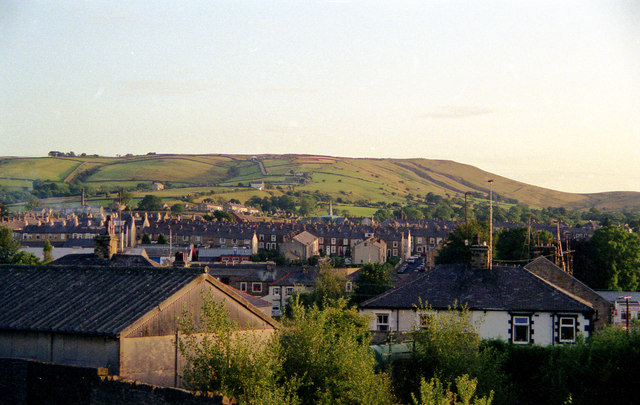 View over Barnoldswick to Weets Hill, in Lancashire, England. The short spire of holy Trinity is in the middle of this photograph but the summit of Weets Hill is some 3 km further away. Direction of view south-west.